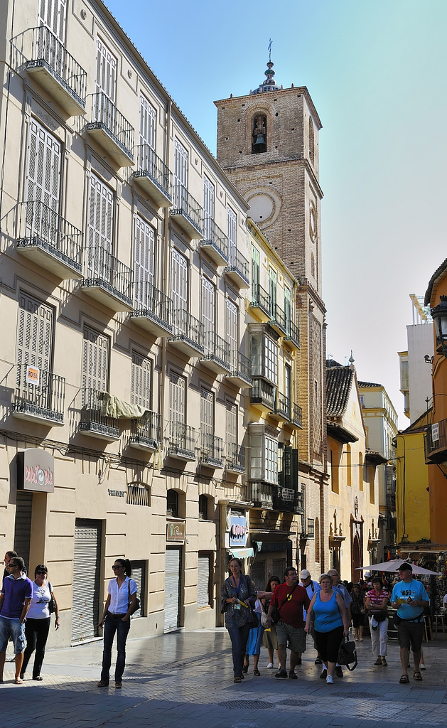 Granada Street, Malaga, Spain.